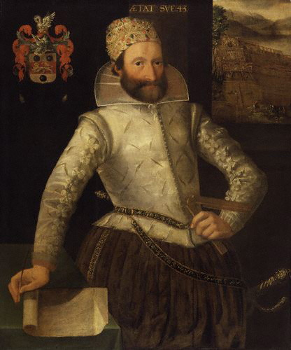 Phineas Pett (1570-1647)